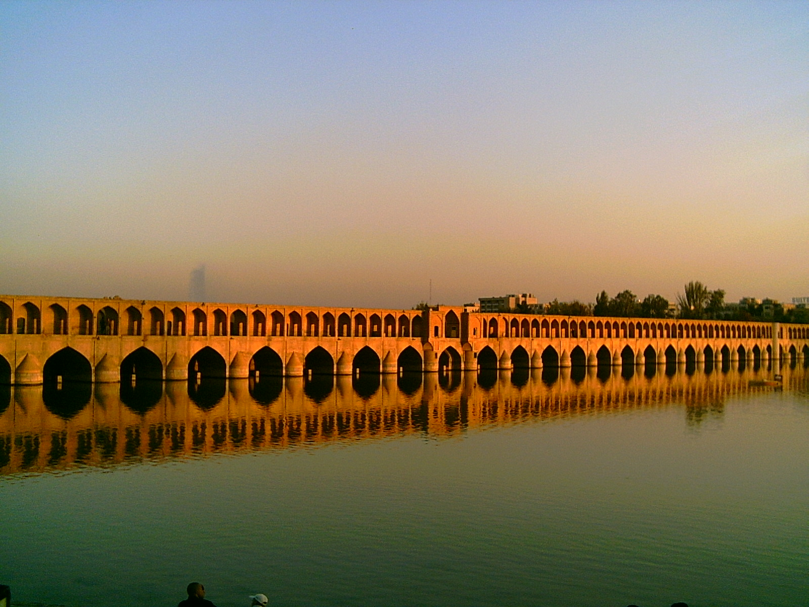 The Si-o-se Pol is a bridge over the Zayandeh Rud (river) in Isfahan - Iran.